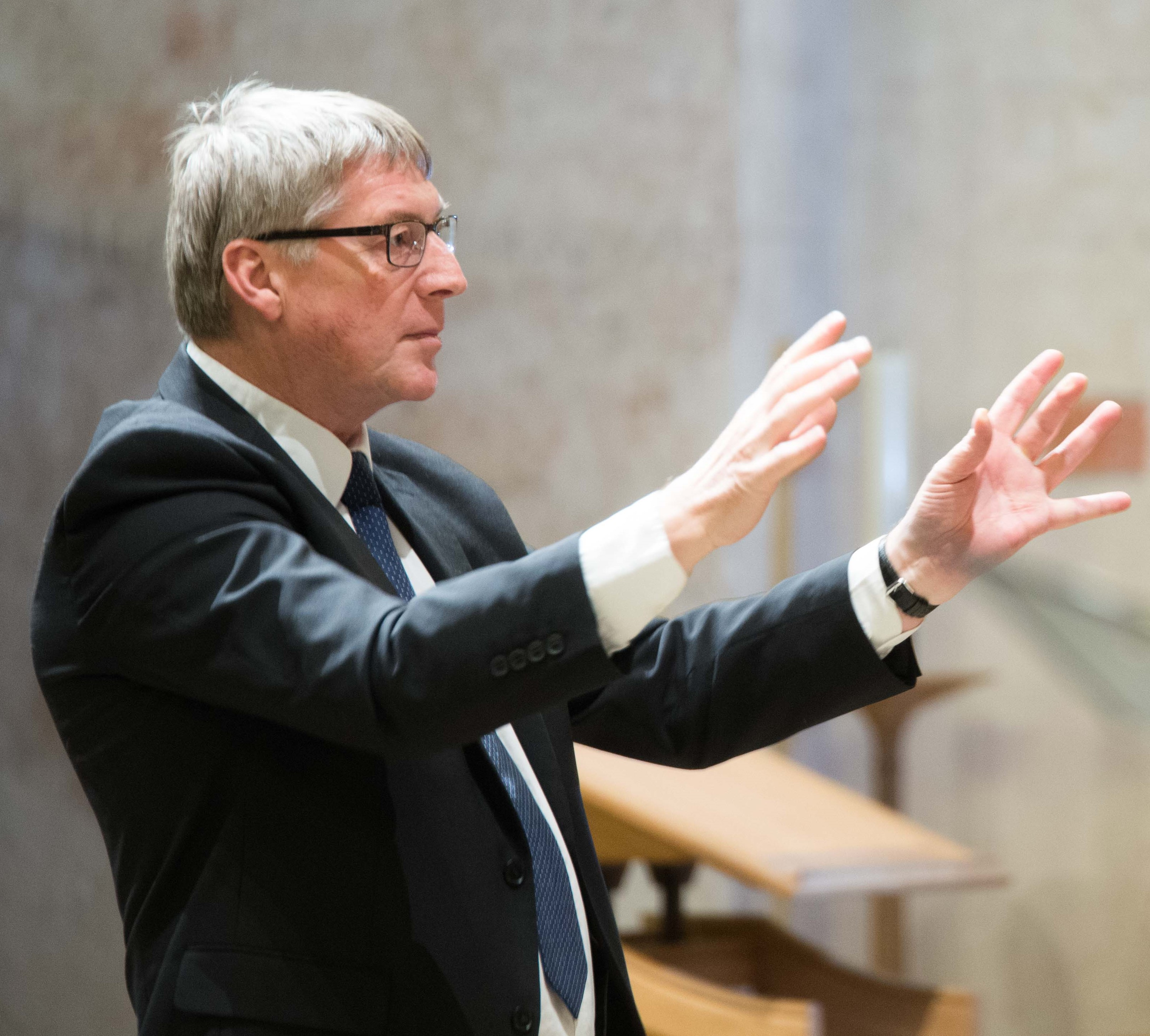 Conducting Hertfordshire Chorus at St Albans Cathedral. Photograph courtesy of Debbie Ram Photography